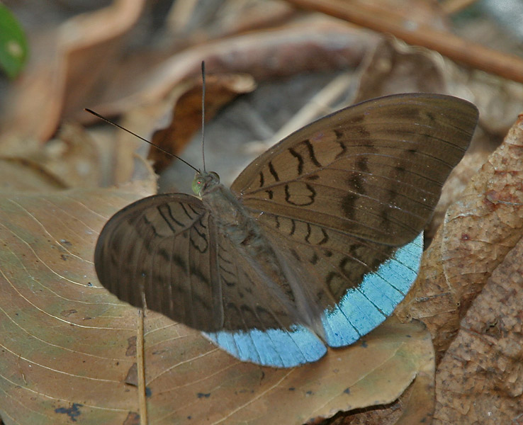 Common Earl Tanaecia julii at Jayanti in Buxa Tiger Reserve in Jalpaiguri district of West Bengal, India.